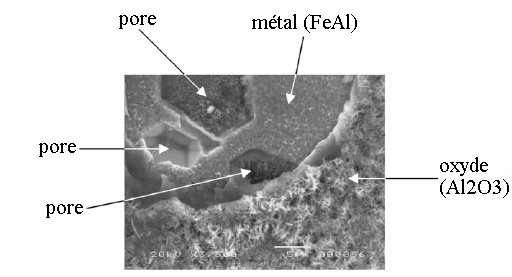 Fractured alumina (Al2O3) layer formed on a iron aluminide (α-FeAl) substrate by high temperature oxidation (artificial air at atmospheric pressure, 900°C), revealing interfacial porisity. Scanning elctron micrography, Université de La Rochelle (France), Centre commun d'analyse. Initially published on (webpage of the author)